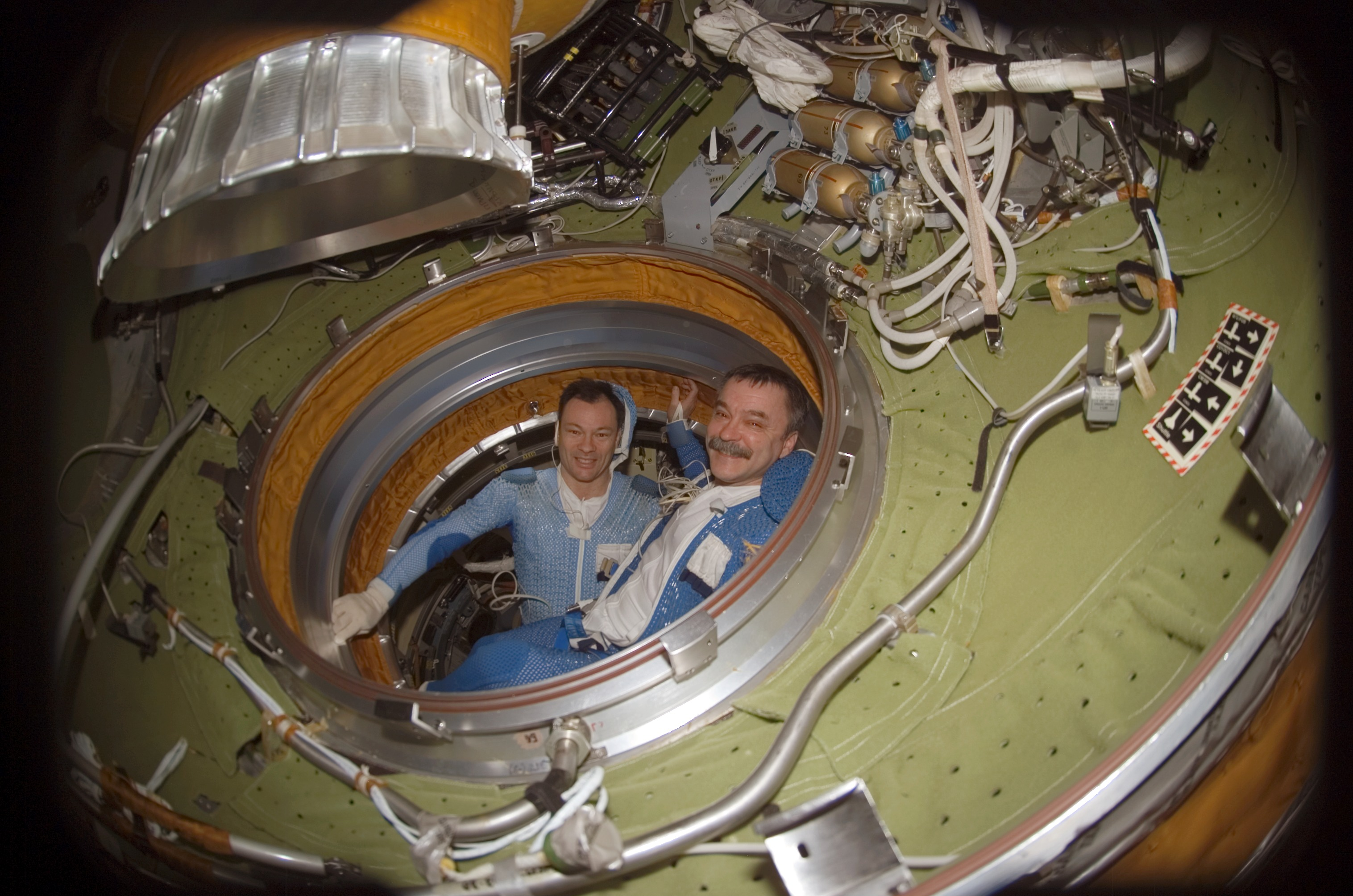 Expedition 14 commander Michael E. Lopez-Alegria (left) and cosmonaut Mikhail Tyurin, flight engineer representing Russia's Federal Space Agency, conduct pre-spacewalk operations in the Pirs Docking Compartment of the International Space Station in the February 2007 image.